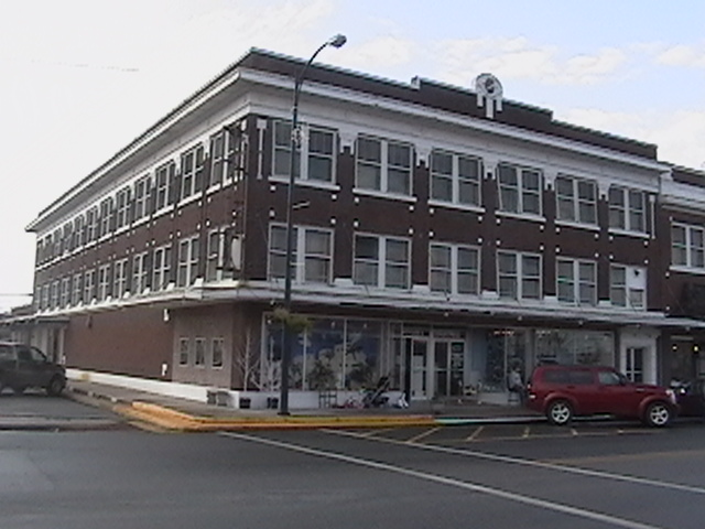 Mullers building of DeRidder, Louisiana in the Historic Downtown District